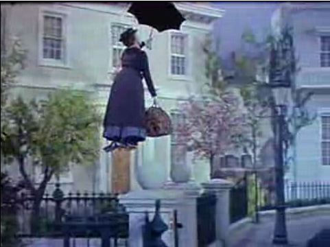 Screenshot of Julie Andrews from the trailer for the film Mary Poppins (film)